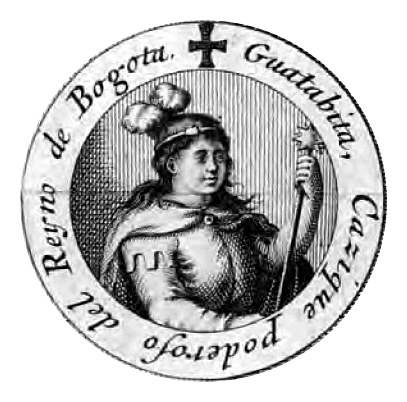 A public square of Guatavita